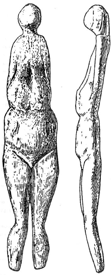 Female statuette, "Venus figurines" was found at Avdeyevka in the Kursk oblast'. Belongs to Kostenko-Avdeyevo culture.